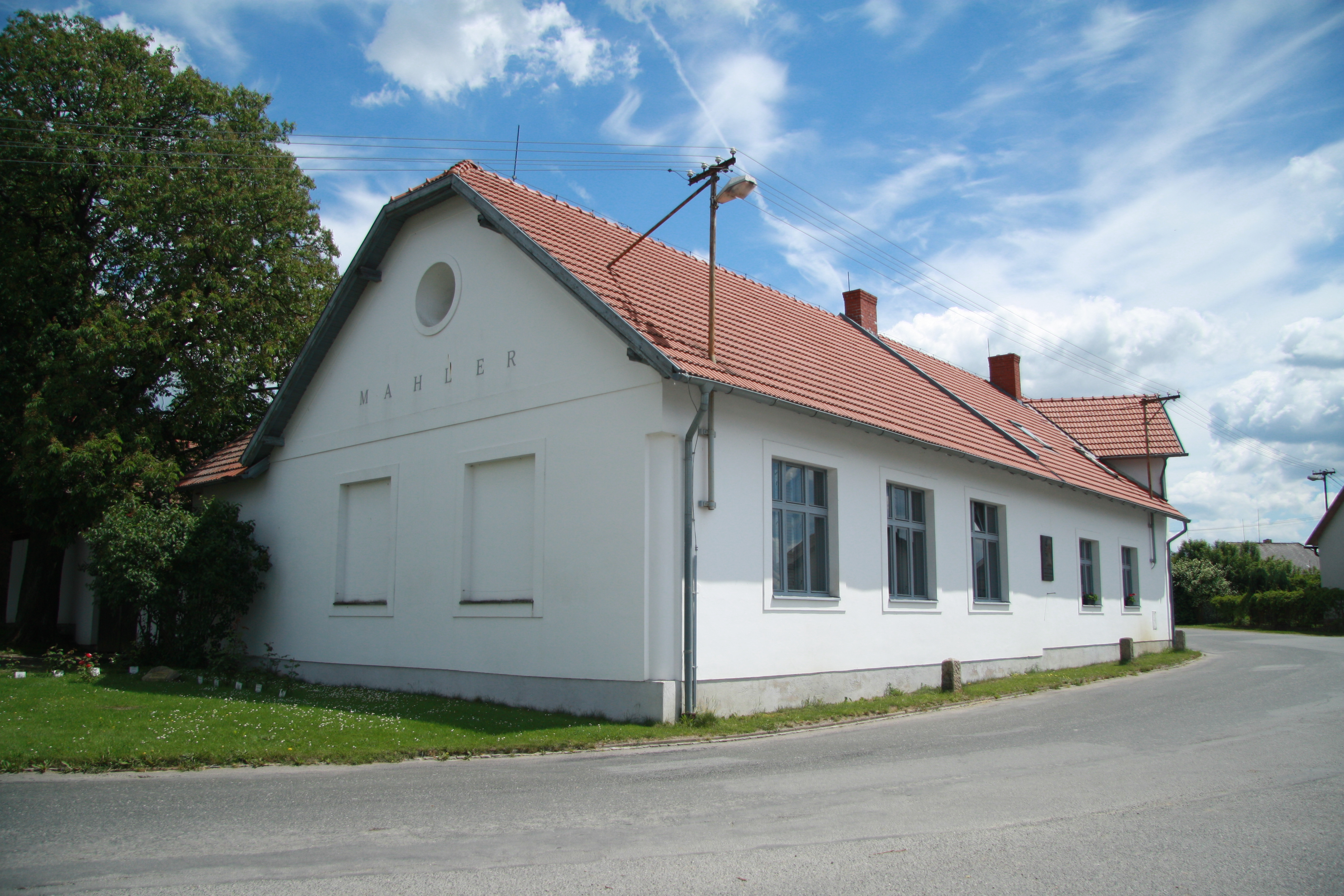 Gustav Mahler birth house in Kaliště, Pelhřimov District.